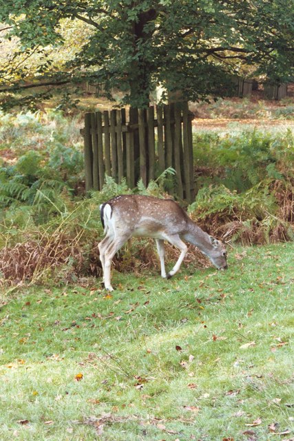 A deer in Dunham Massey Deer park, Greate Manchester, England